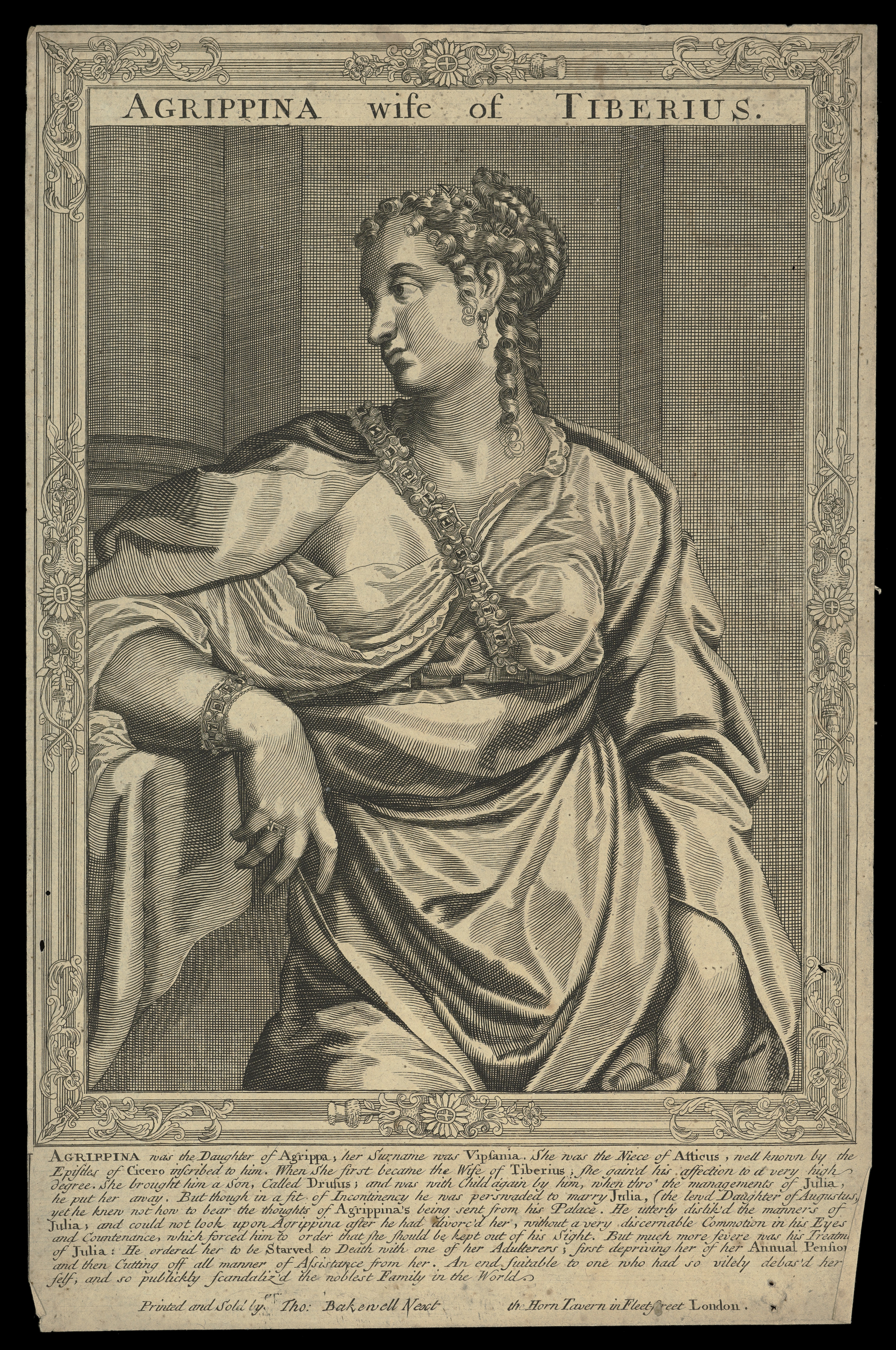 Vipsania Agrippina, wife of Tiberius Caesar. Line engraving, 16--, after A. Sadeler after Titian Iconographic Collections Keywords: Ægidius Sadeler; name; Vipsania Agrippina